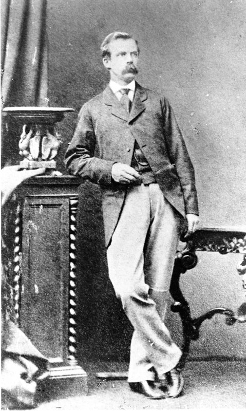 John Melton Black, first Mayor of Townsville from 1866 - 1867. Recognised as being one of the founders of Townsville, 1867.